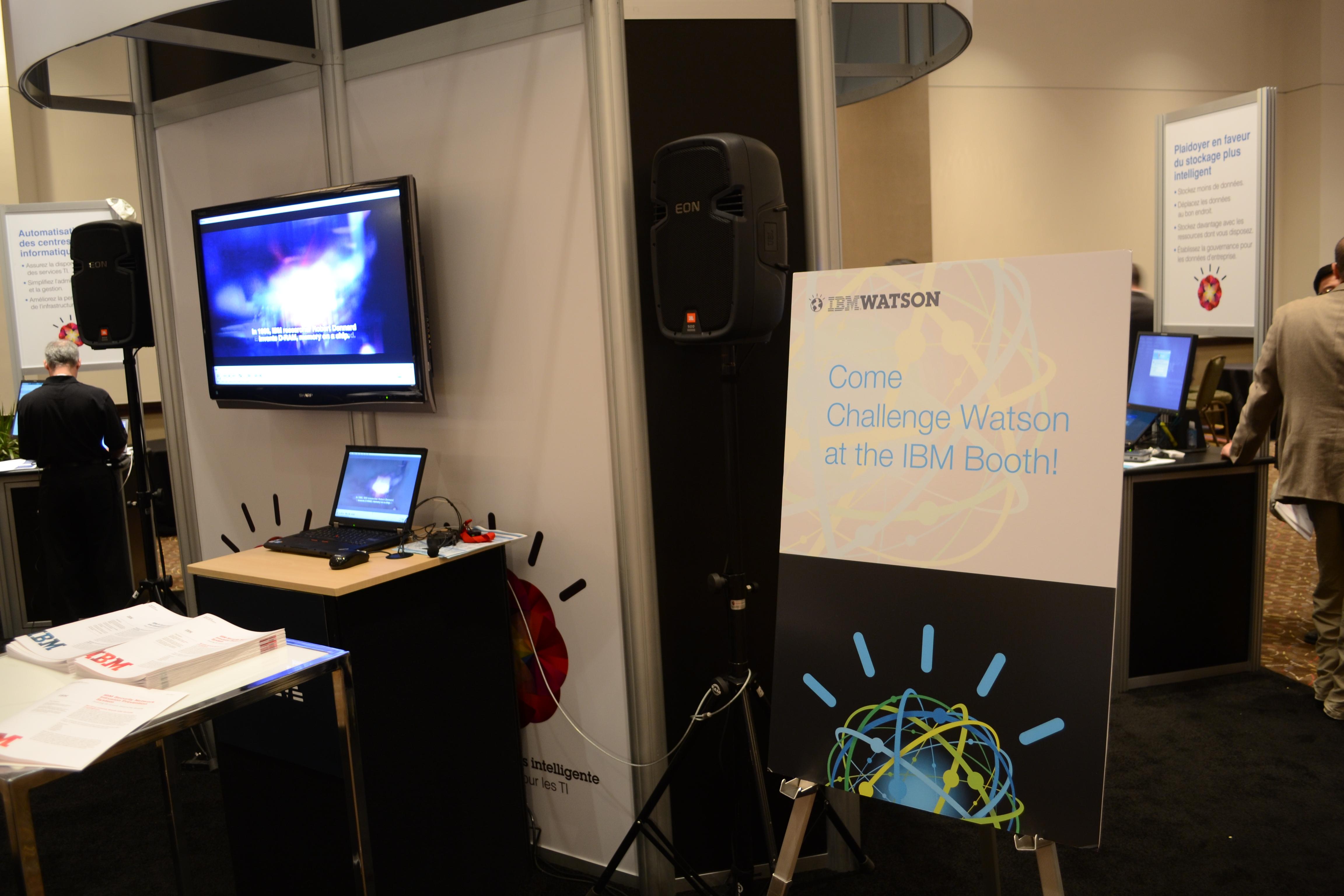 Watson demo at an IBM booth at a trade show